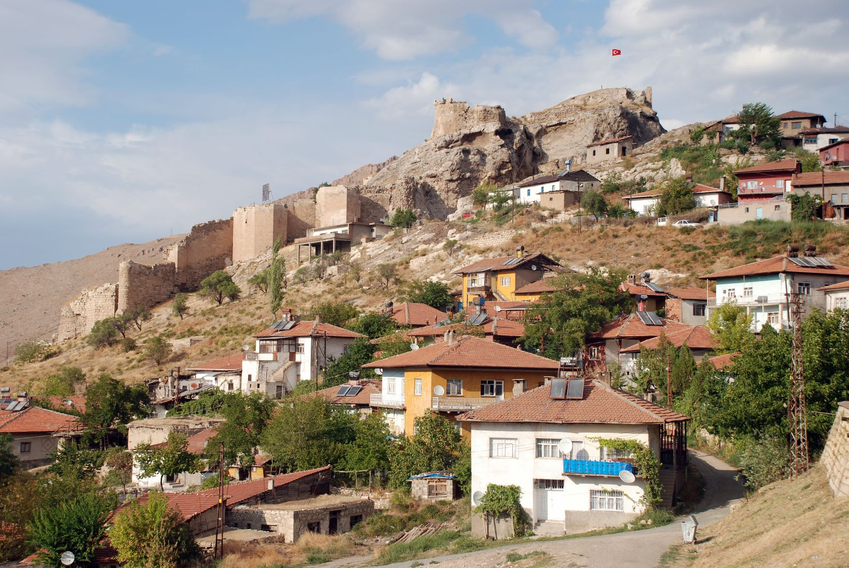 Divriği, Sivas province, citadel south wall